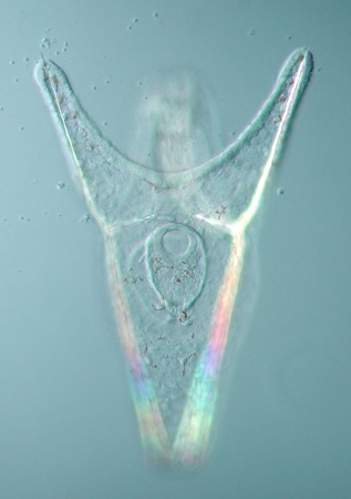 Early pluteus of the heart urchin Psammechinus miliaris, lengh 500 Âµm